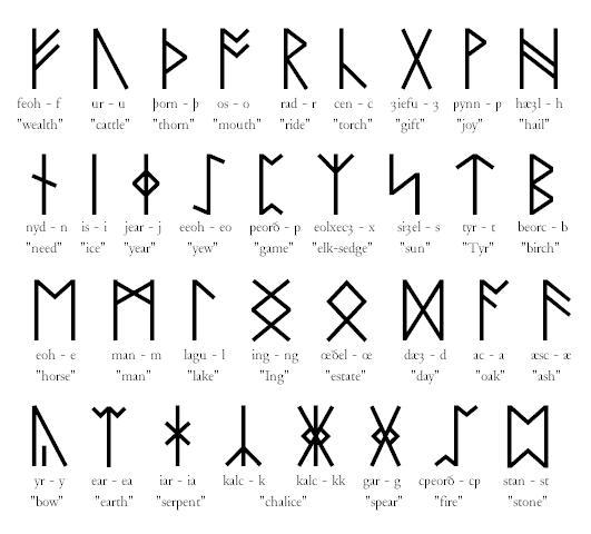 Image created by me. Contains all 34 runes in the Anglo-Saxon Fuþorc, their names, meanings, and values in the Latin alphabet.